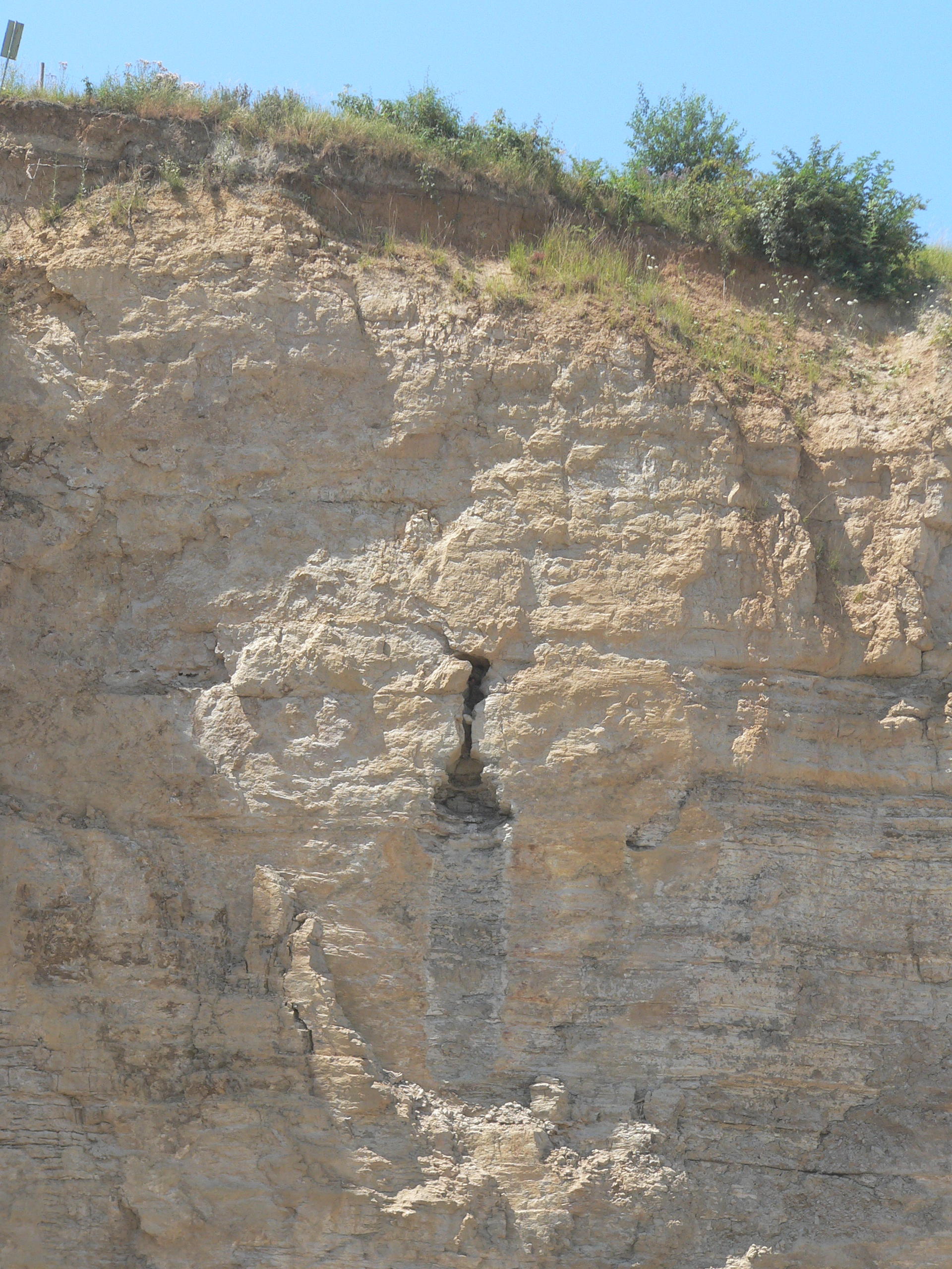 Outcrop with cave in one of the quarries of the "Natursteinwerke im Nordschwarzwald NSN", Germany.